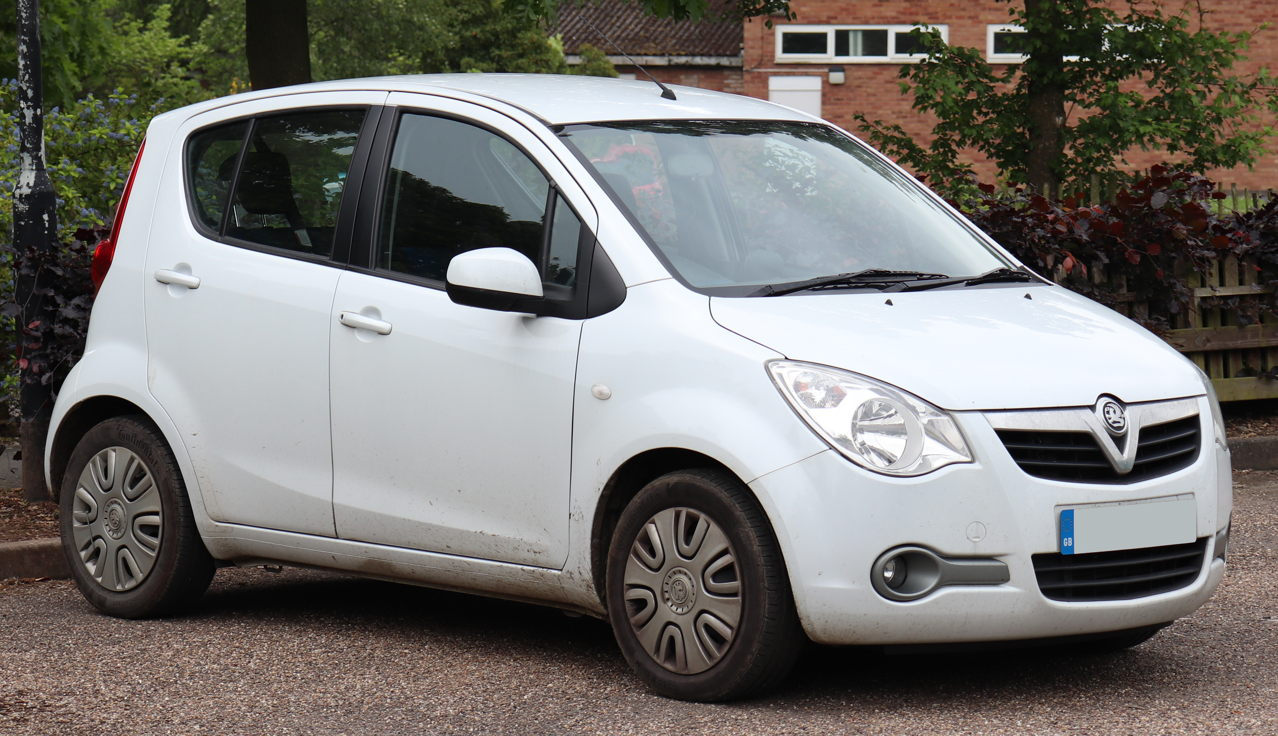 2014 Vauxhall Agila S AC Ecoflex 1.0 Taken in Leamington Spa